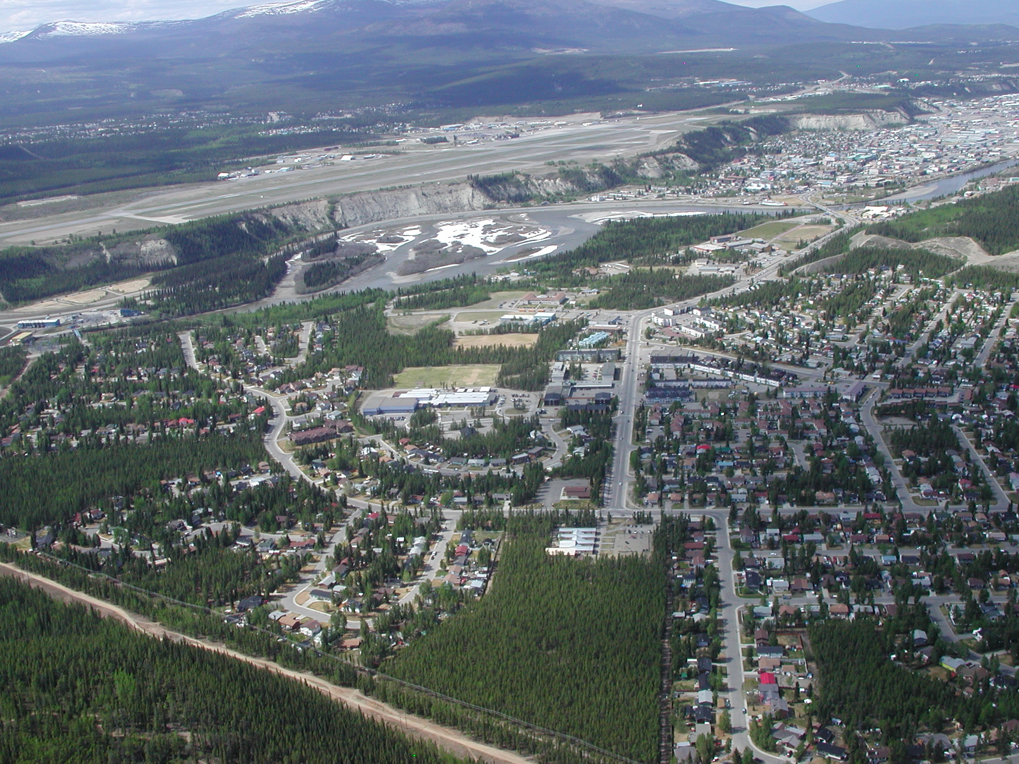 Whitehorse from the southeast. Riverdale in the foreground, Downtown in the background. Helicopter flights are fun!